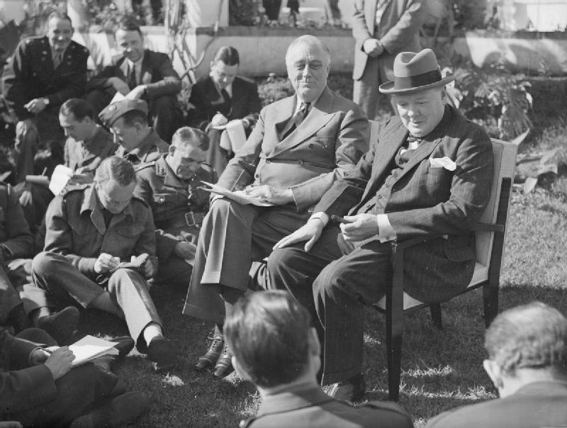 President Roosevelt and Prime Minister Churchill at the Allied Conference in Casablanca, January 1943 Prime Minister Churchill and President Roosevelt seated in the garden of the villa in Morocco where they met for a war conference. Surrounding them, seated on the floor are British and American war correspondants.